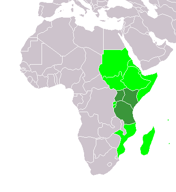 own work